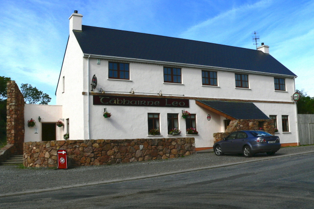 Crolly - Leo's Tavern This tavern is located off N56, just south of Crolly, and just off R259 on the first road to the north. A sign there notes the way to Leo's Tavern. This tavern is owned by Leo Brennan. His children started their musical careers here, along with their twin uncles (Duggans) as Clannad, with Maire (Moya) as the featured vocalist. Later on, Enya went her separate way to achieve fame.